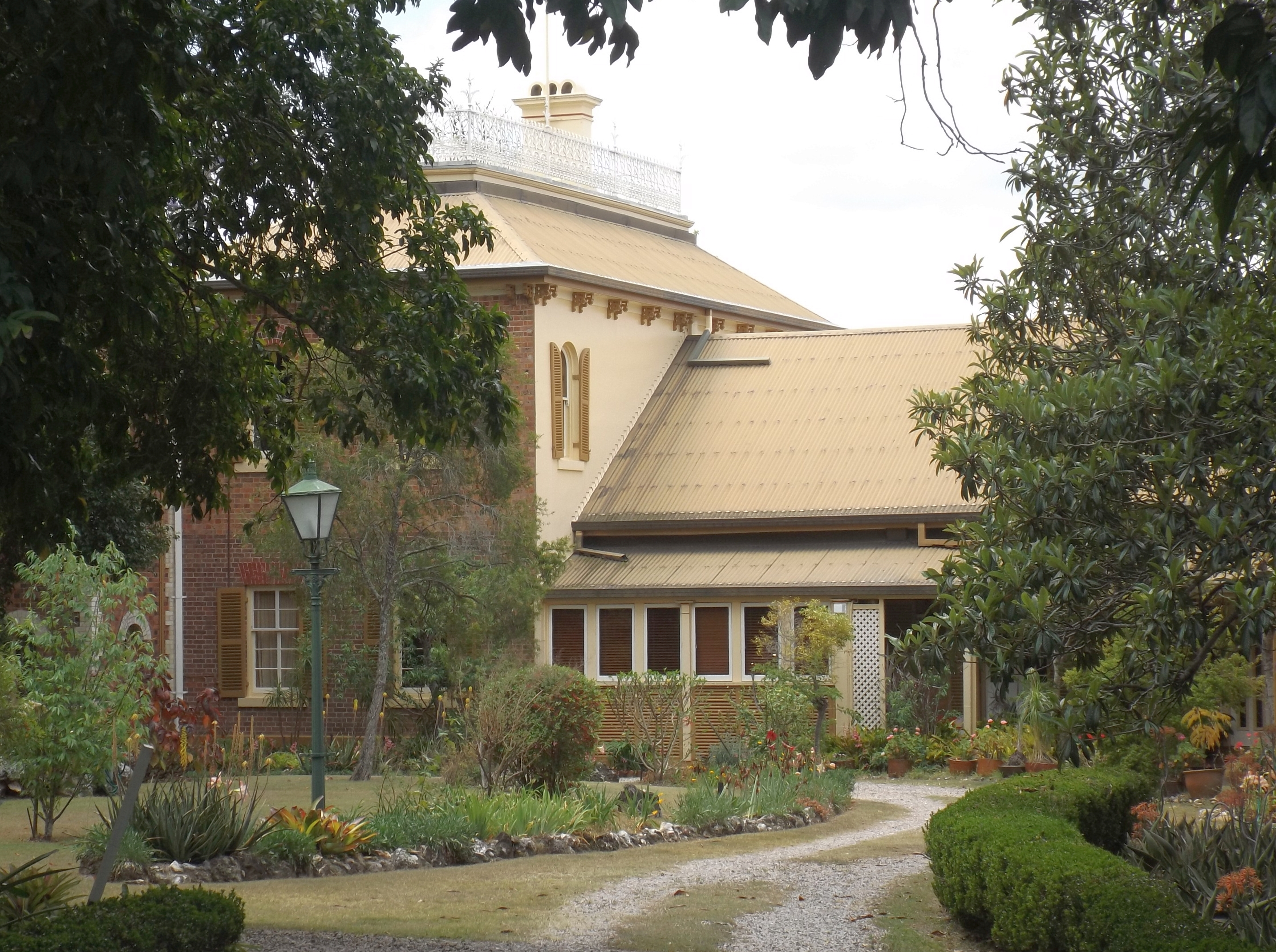 Photo of Rockton residence and driveway at Newtown, Ipswich, Queensland, Australia.